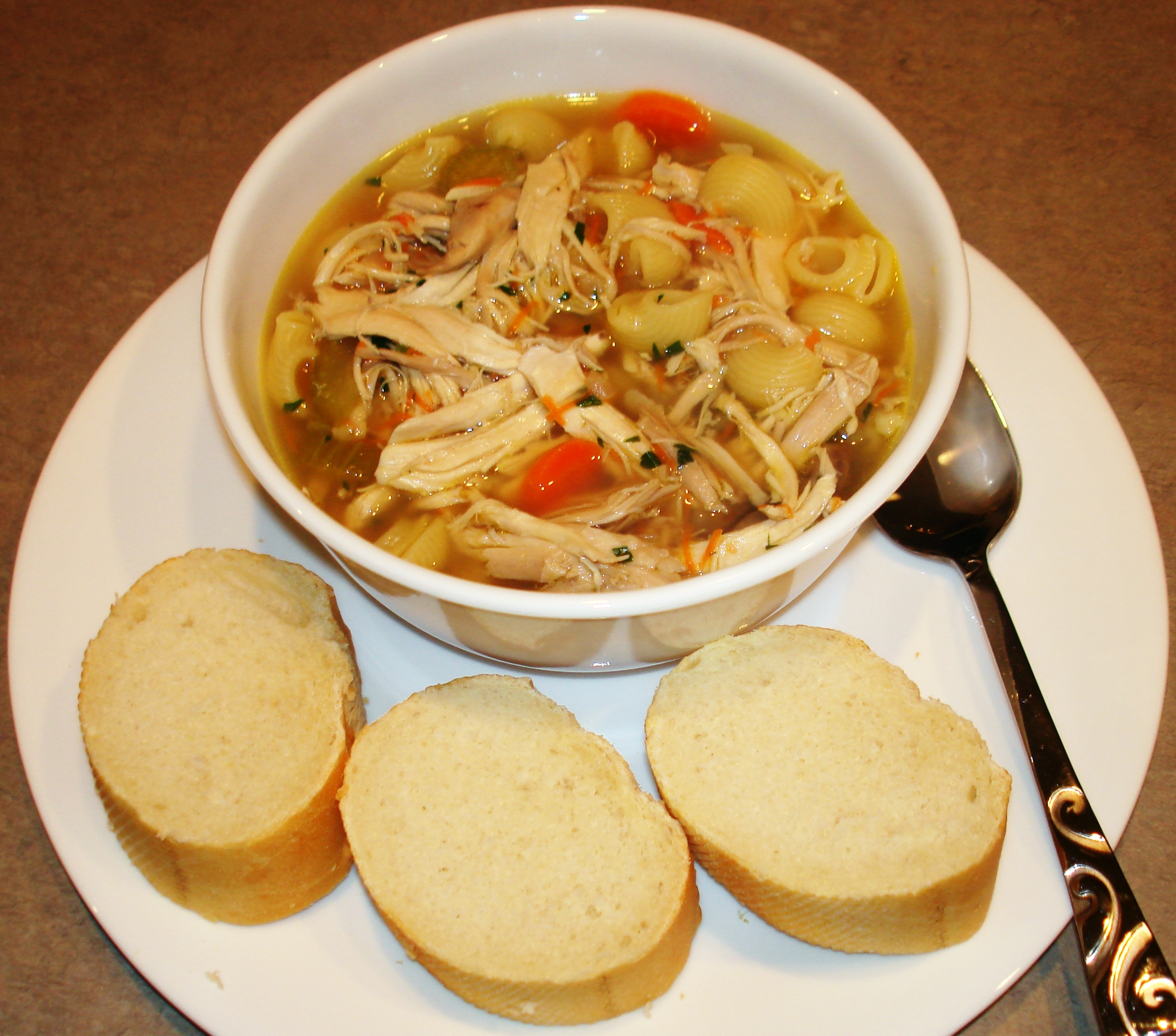 Homemade chicken noodle soup, with bread. This is a cropped image created from File:Whole Chicken Noodle Soup (163937285).jpg.